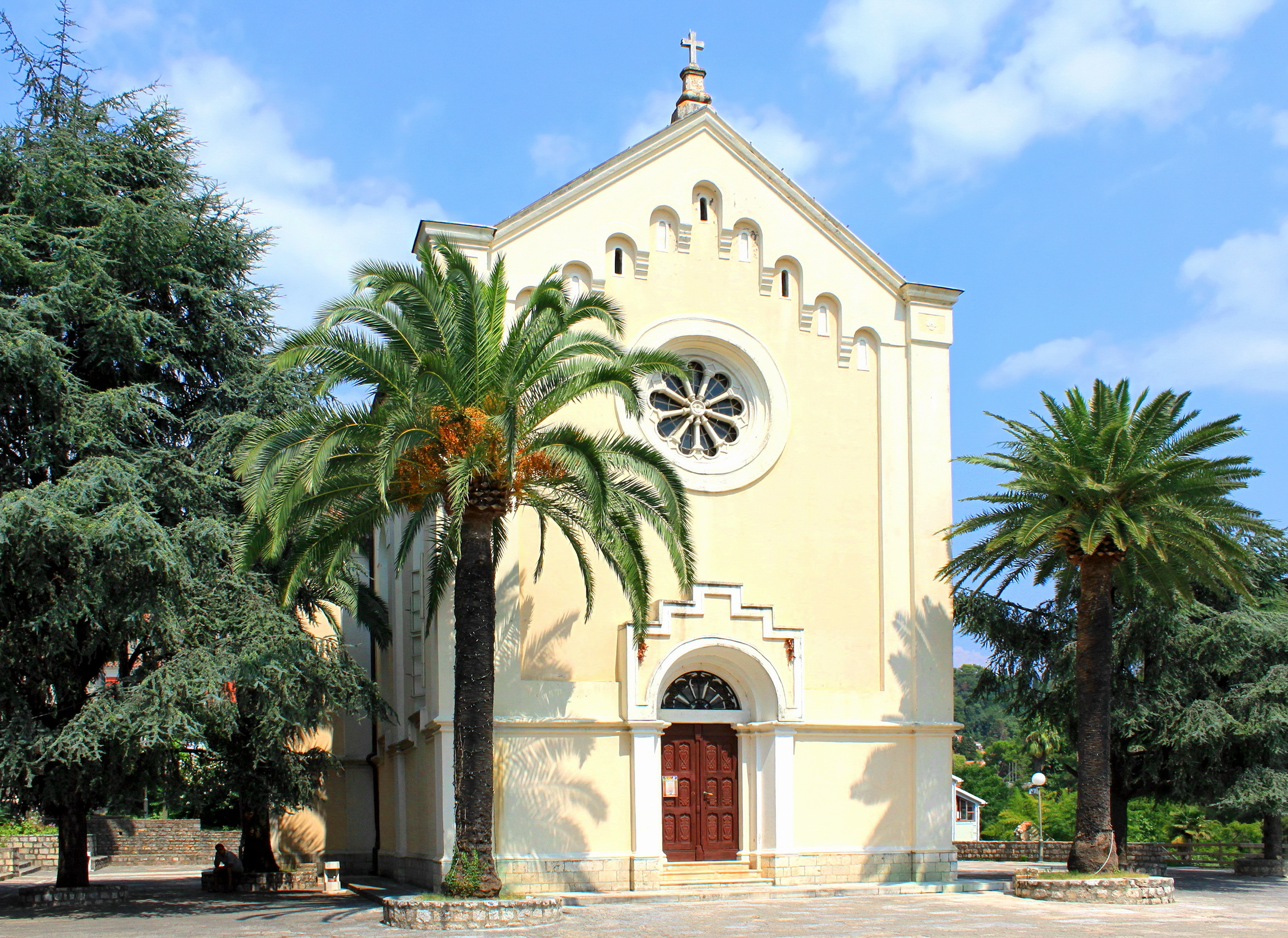 Church of St. Jerome, 1856. Herceg Novi, Montenegro.